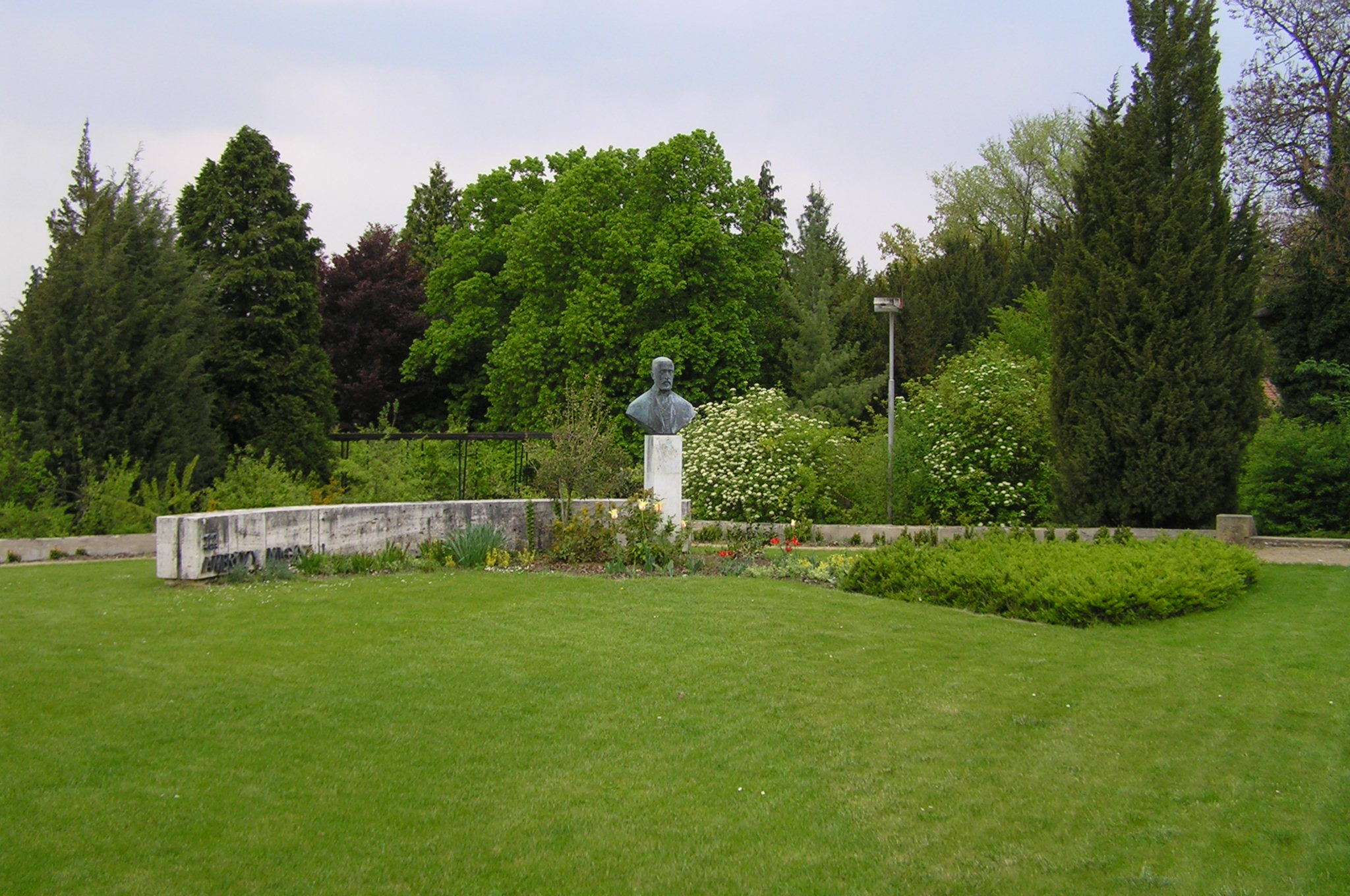 Arborétum Mlyňany - memorial to the founder, Count Ambrózy-Migazzi